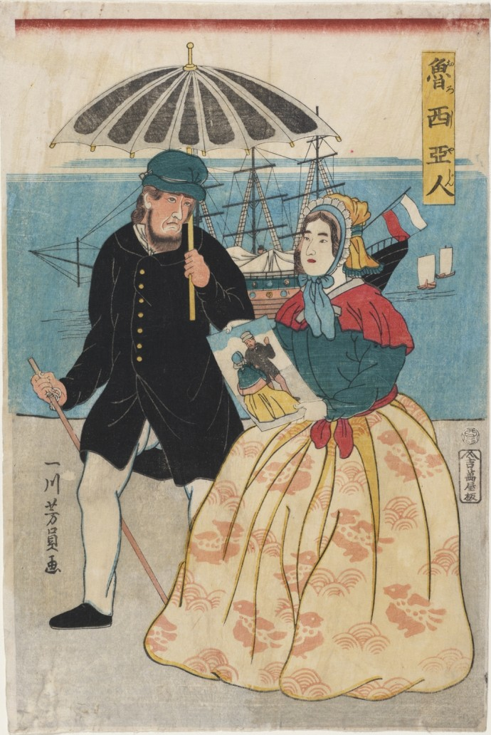 A Russian couple in Yokohama 魯西亜人